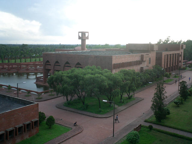 Captured by iutians.